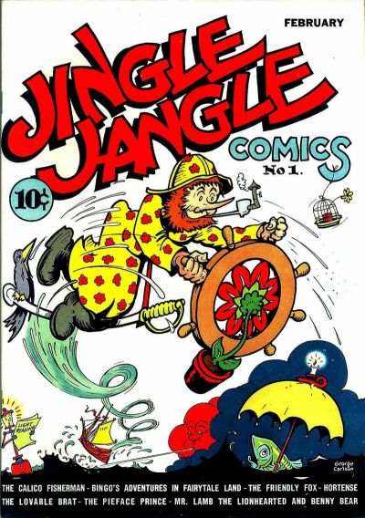 Front cover of Jingle Jangle Comics #1